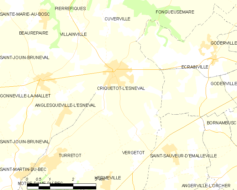 Map of French municipality Criquetot-l'Esneval